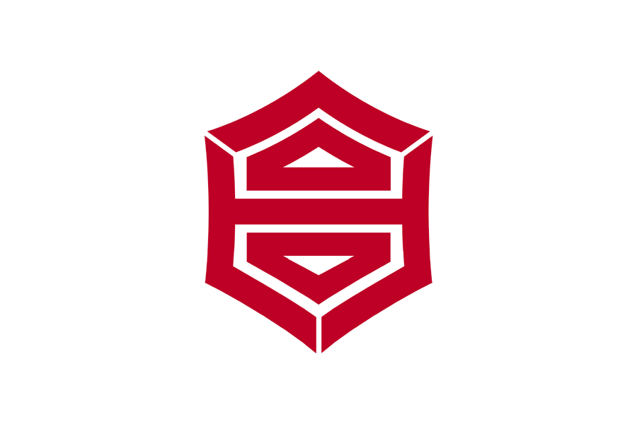 Flag of Kochi, Kochi